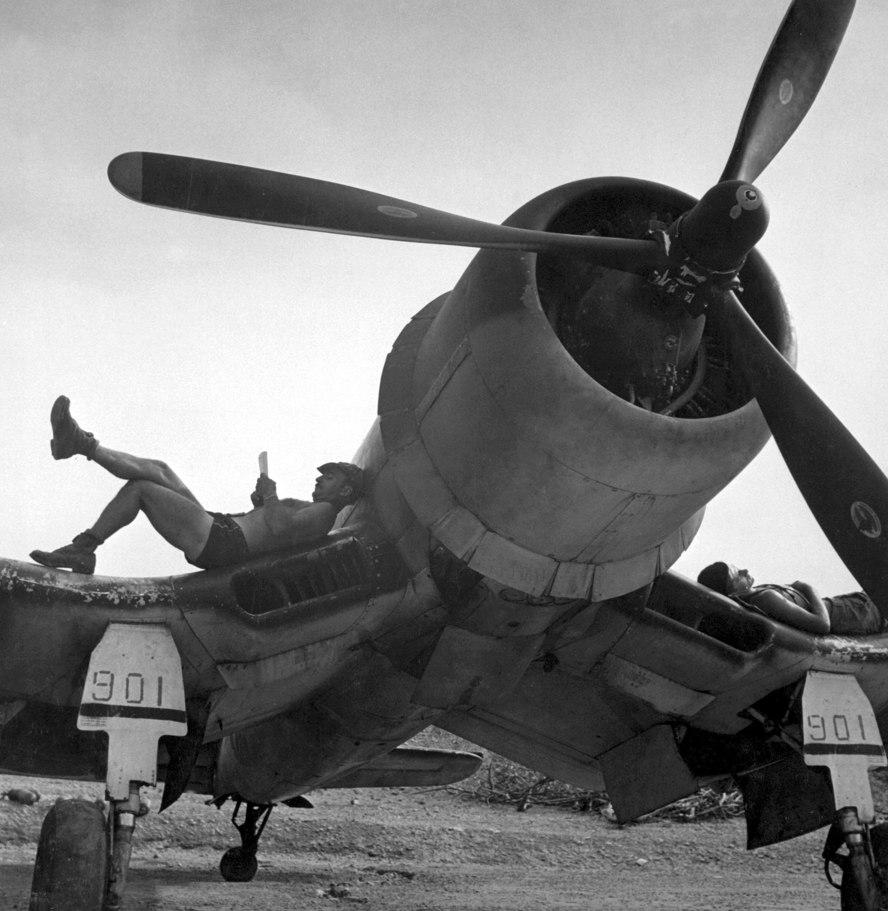 U.S. Marines of Marine fighter squadron VMF-222 Flying Deuces relaxing in between strikes on a Vought F4U-1 Corsair on Bougainville, Solomon Islands, in April 1944.